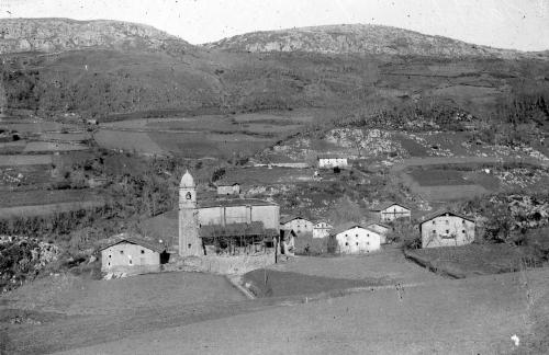 Overall view of Gaztelu